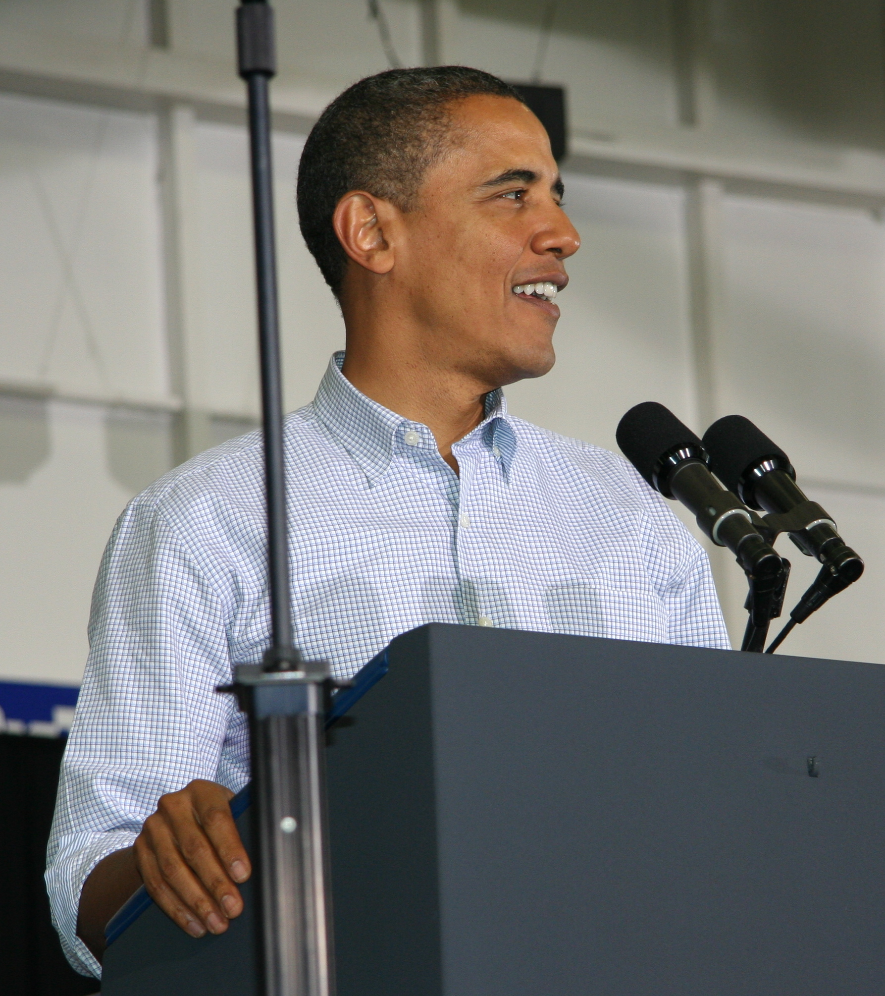 Barack Obama speaking at a rally at the University of Minnesota Field House in Minneapolis